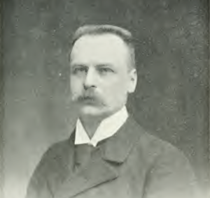 Édouard Chavannes, from Henri Cordier obituary of him in T'oung Pao